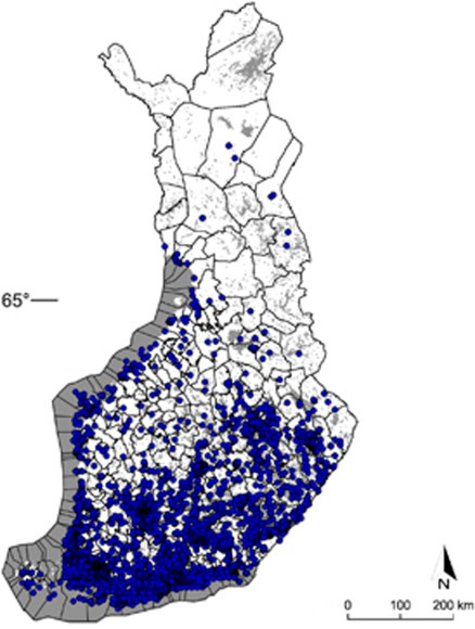 Map illustrating the distribution of I. ricinus and I. persulcatus in Finland based on the coordinates of 17 603 tick samples collected in 2015 via the collection campaign. Blue dots indicate collection points for I. ricinus (n=13 847) and red dots indicate collection points for I. persulcatus (n=3756).